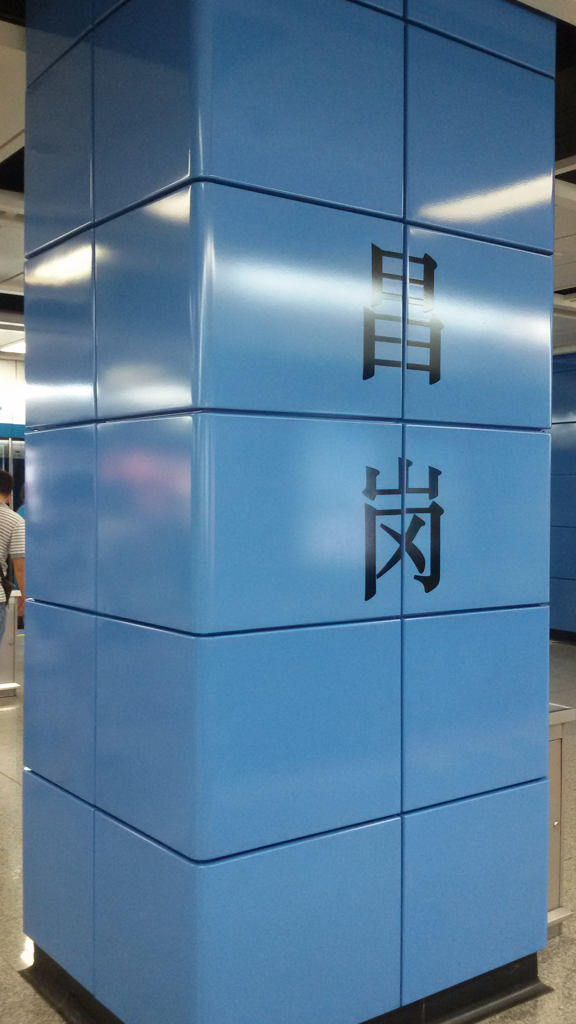 WORD on PILLAR for Changgang Station at Line 2 in Guangzhou Metro.